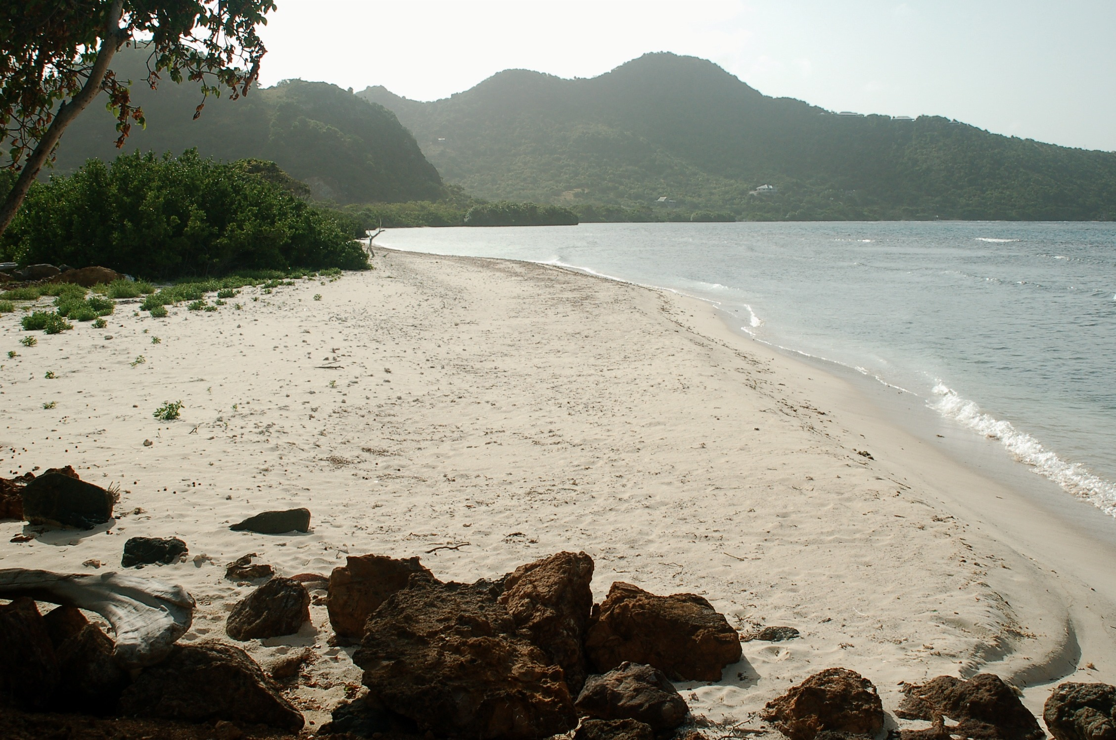 The north coast of Union Island, the site of Big Sand beach and adjacent beaches, is framed by large hills Photo: Iain Grant, 2005.